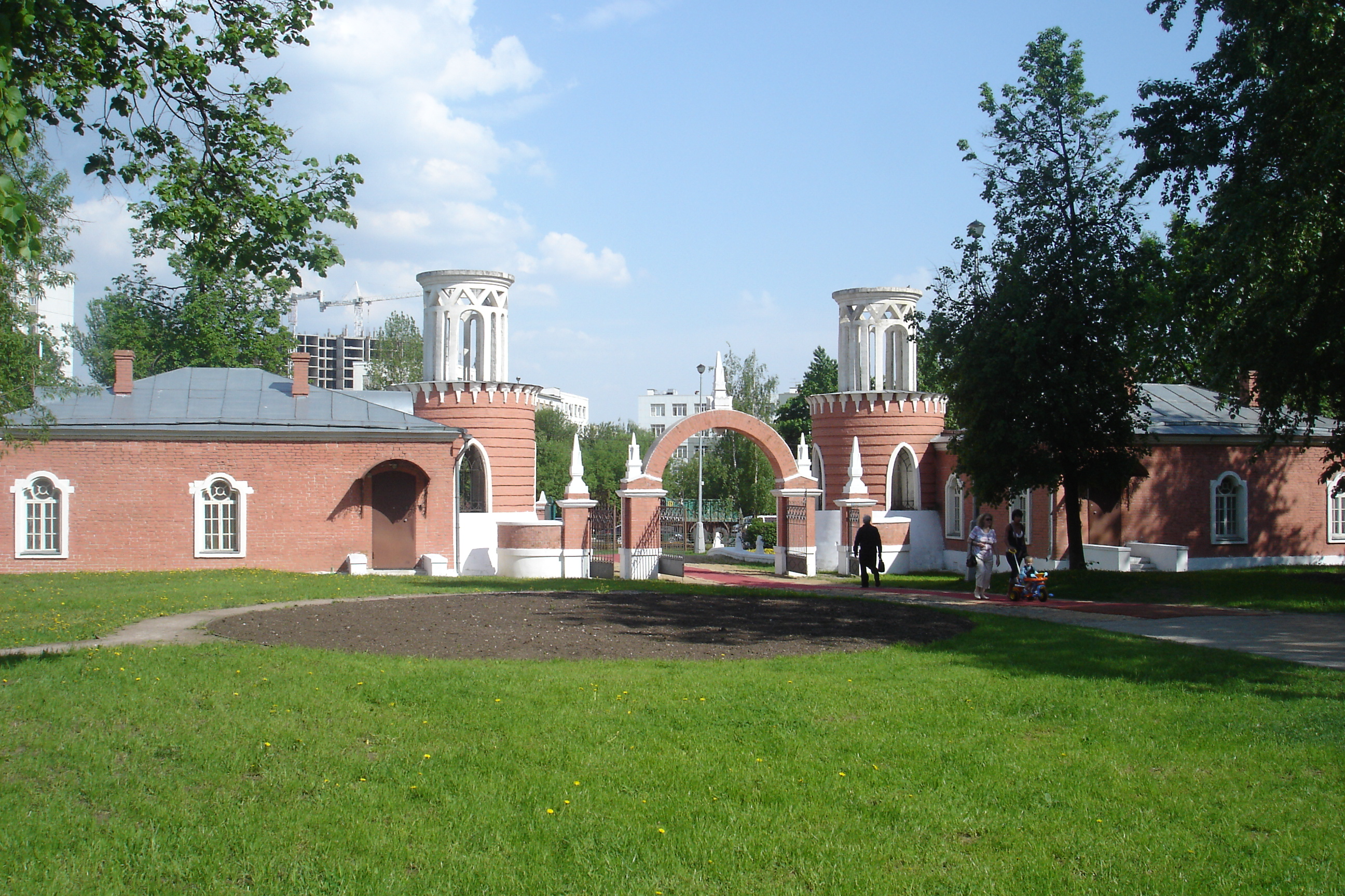 Vorontsovo manor Park. Architectural monument - main entrance gates to manor. Two towers with guardhouses. 18th century.